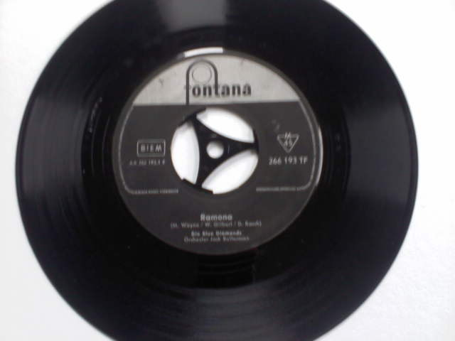 Single Ramona (1960) from the Blue Diamonds